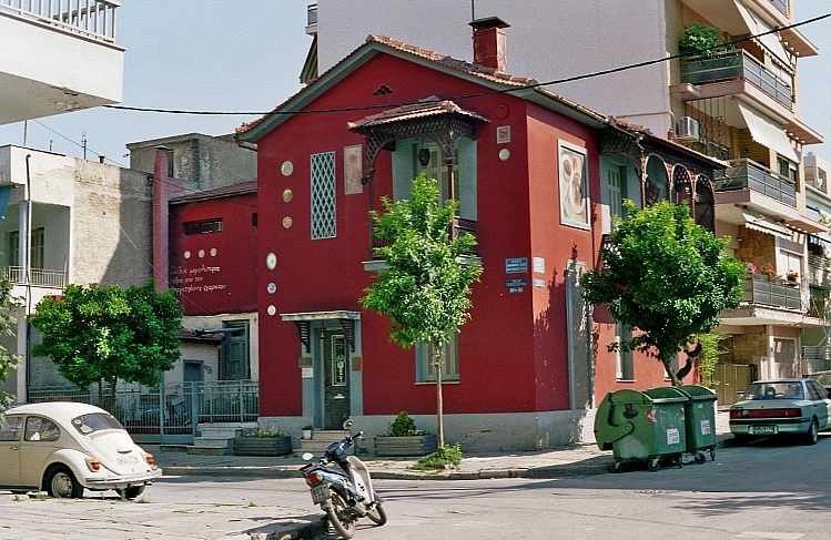 Cryshoula Zogia house in Volos, Greece